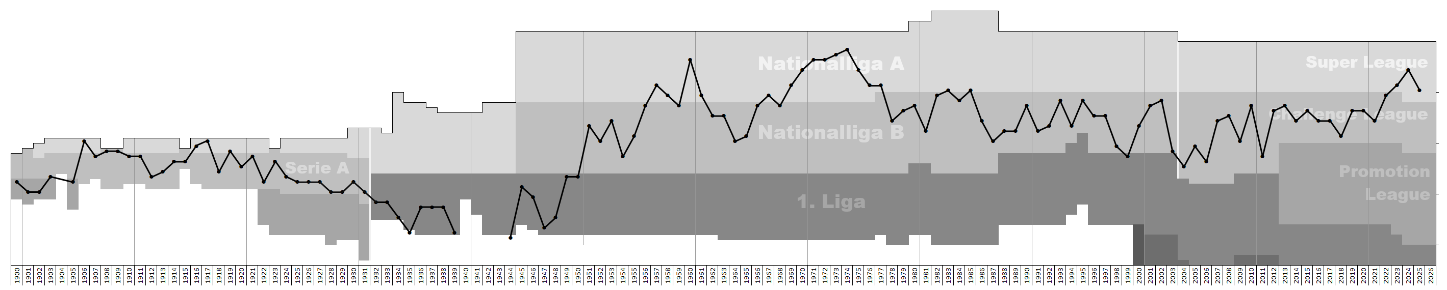 Chart of end-season table positions for FC Winterthur in the Swiss football league system. Data source: RSSSF